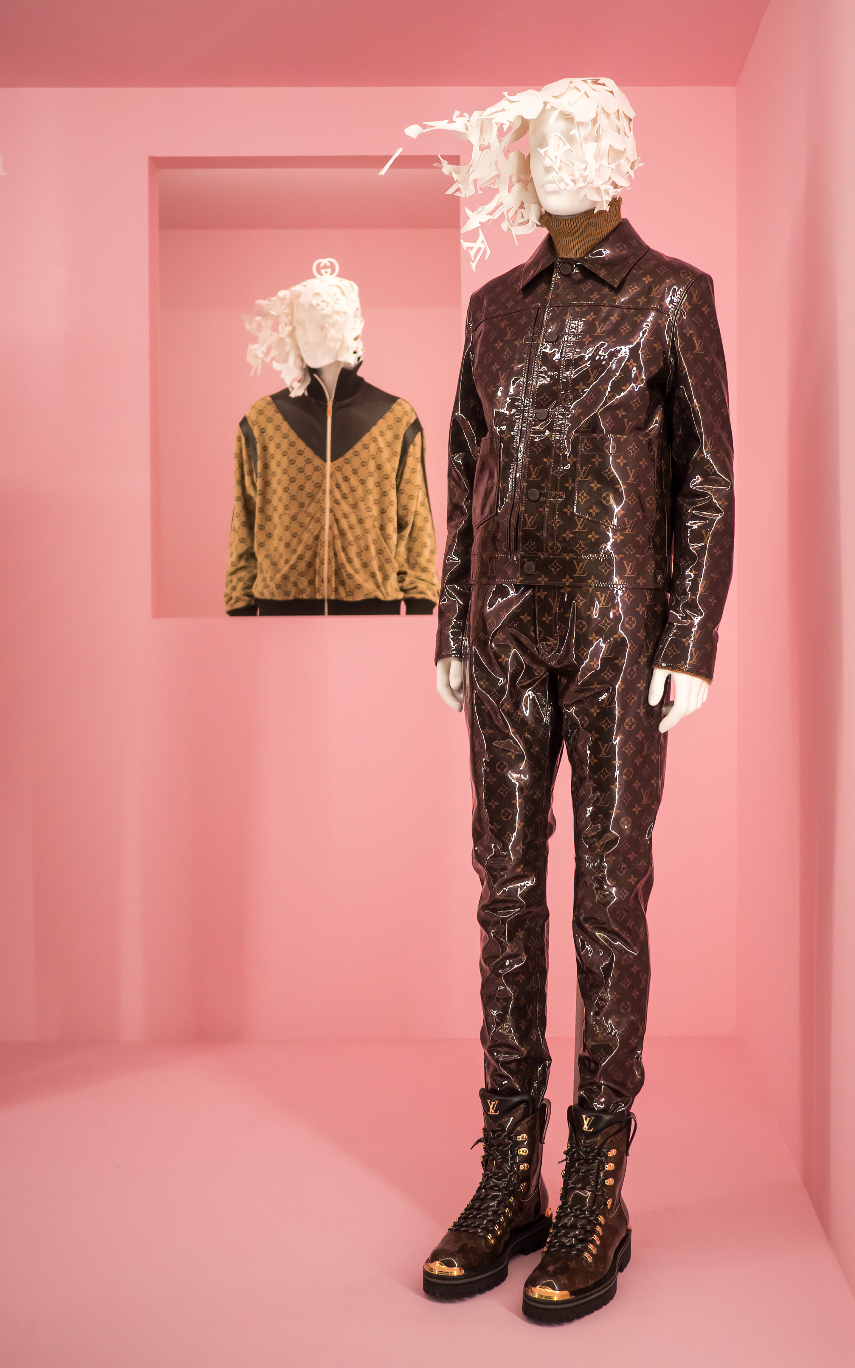 Left by Gucci/Dapper Dan, 2018. Right by Louis Vuitton/Kim Jones, autumn/winter 2018-19Camp: Notes on Fashion exhibit at the Met